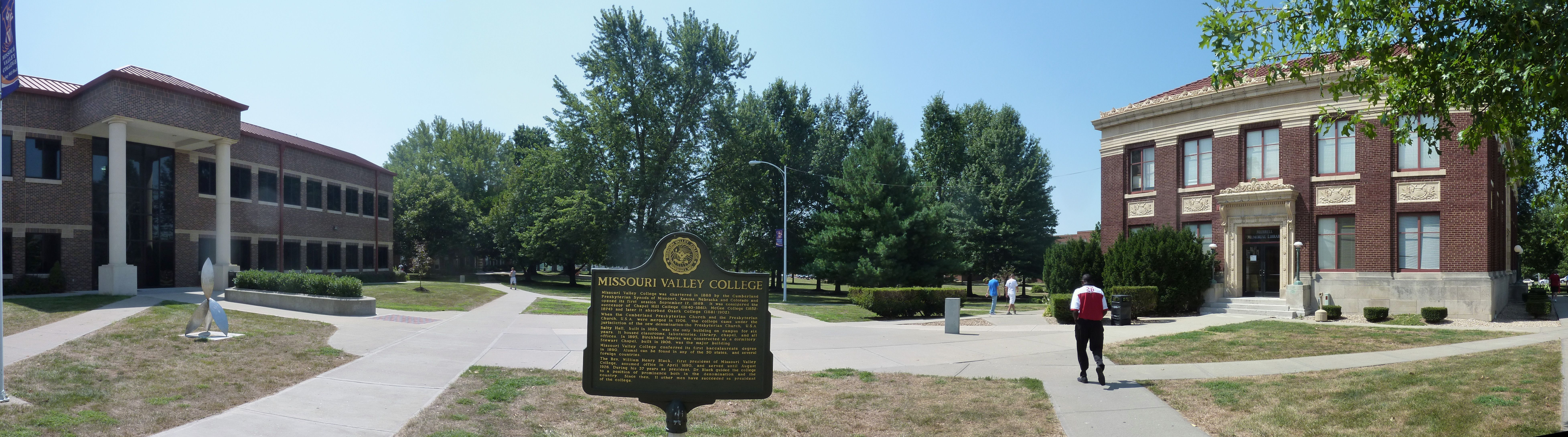 Missouri Valley College in Marshall, Missouri